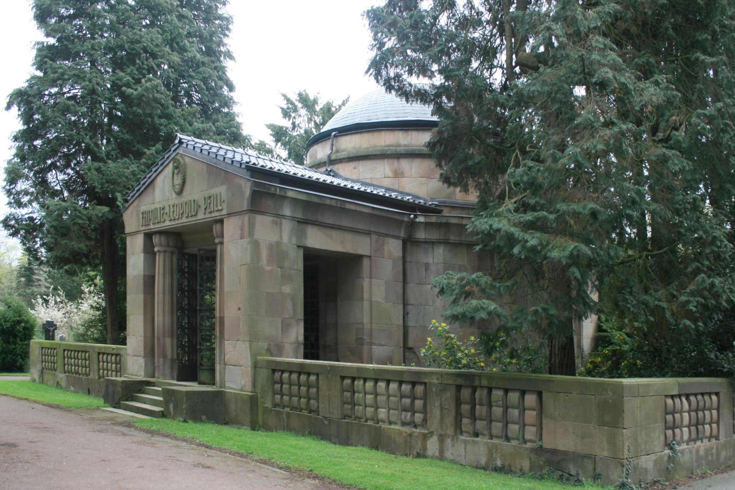 Cultural heritage monument No. 1/075 in Düren